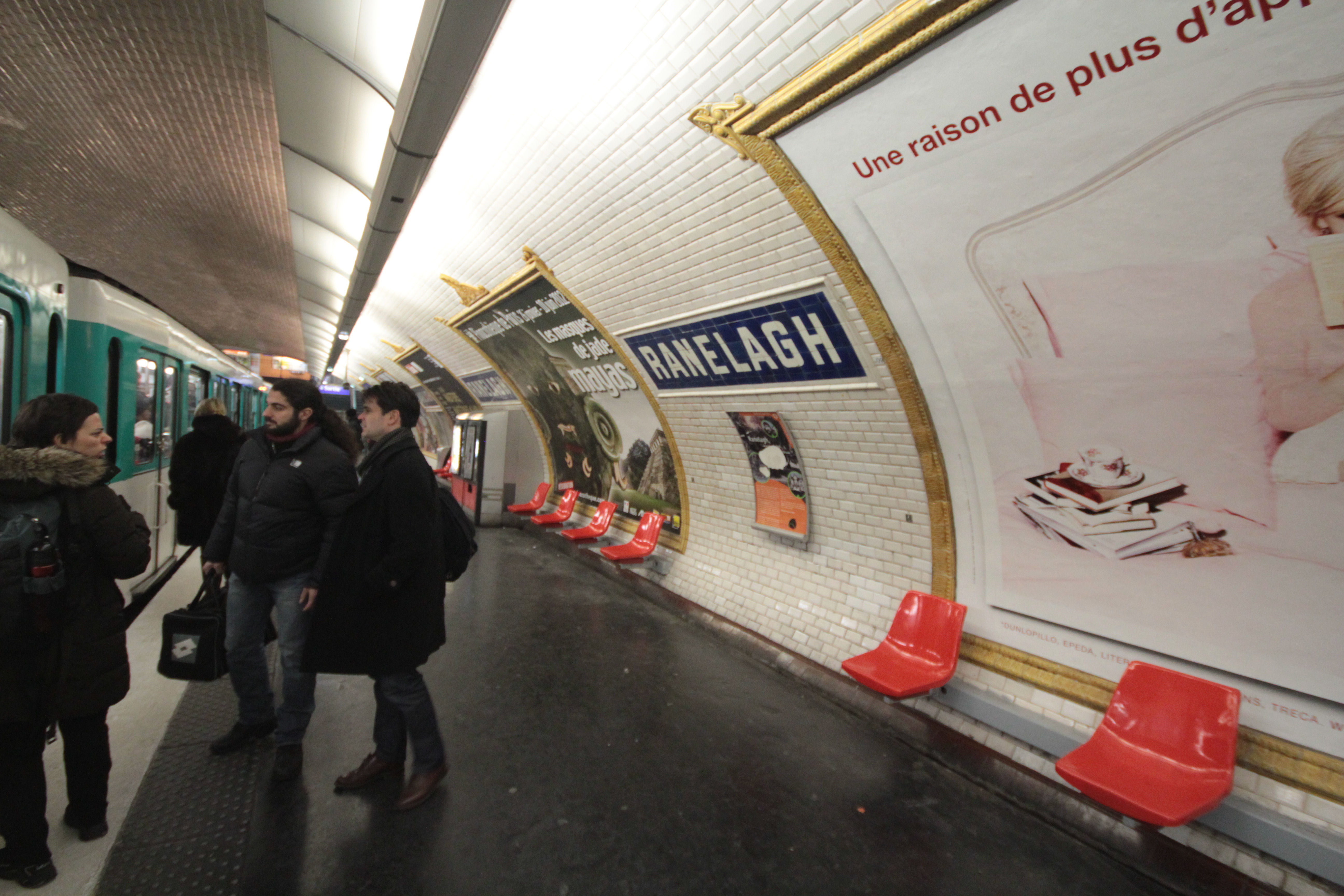 Station Ranelagh on Parisian metro line 9